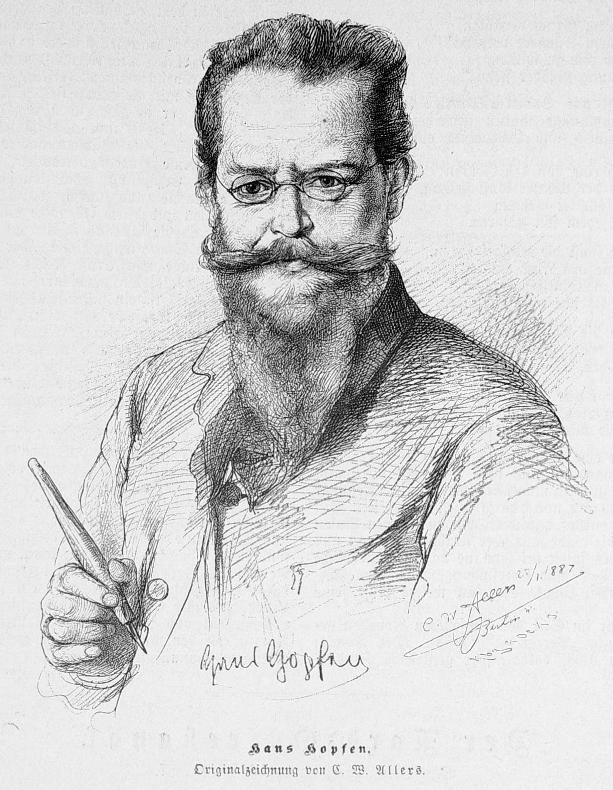 caption: "Hans Hopfen Originalzeichnung von C. W. Allers."